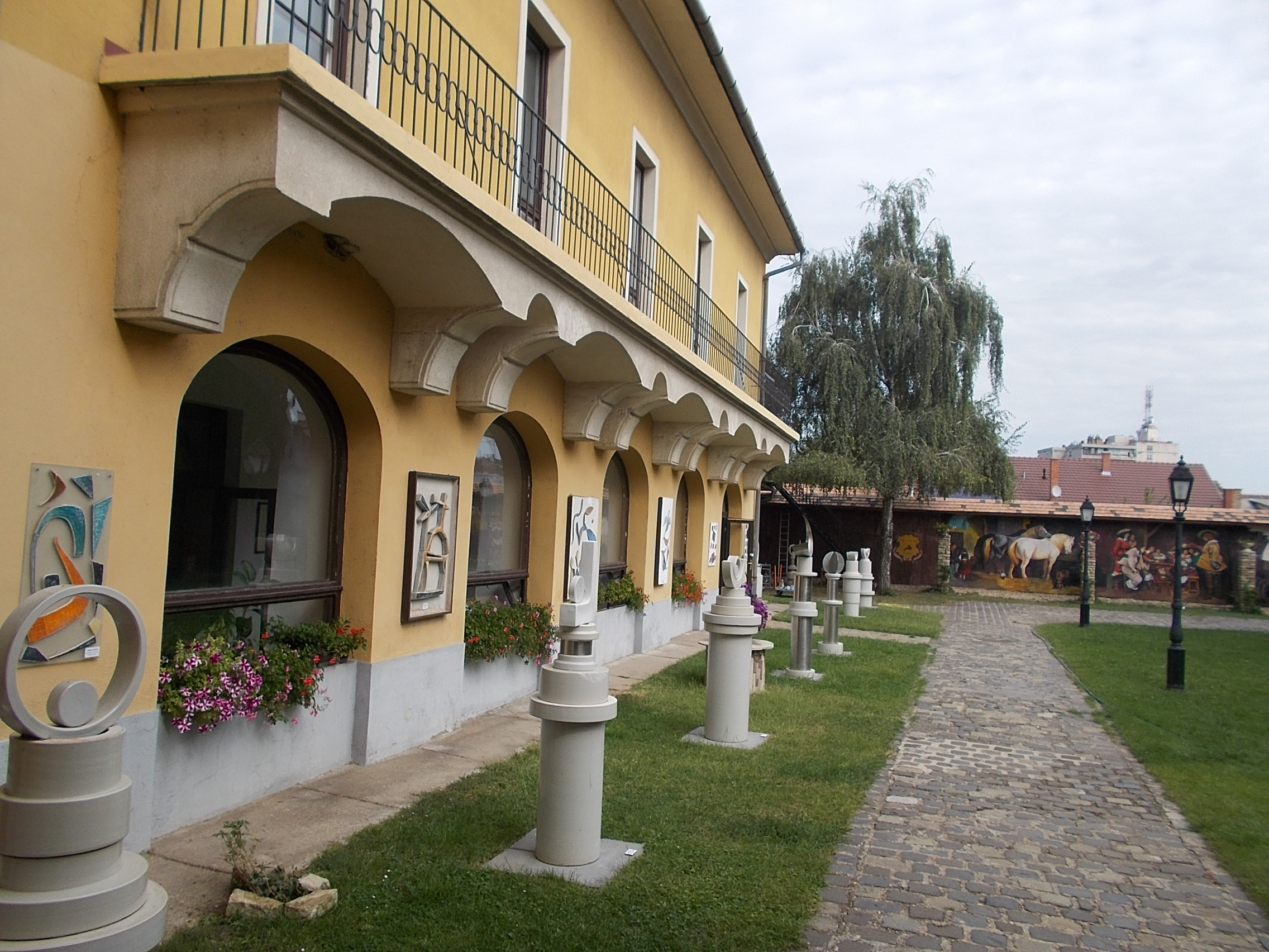 Yard of the Pannonia-building. Former tavern, a pub of Bishop's estate in the early 1700s. Later functioned as an inn and known as the Golden Deer . The Pannonia-building is a classicist Baroque building. The name 'Pannonia' has been derived from later period when it was a trading house. In recent decades, it worked as a cinema. Now here is the Vác Depository and the city museum . - 19, Köztársaság Street, Vác, Hungary